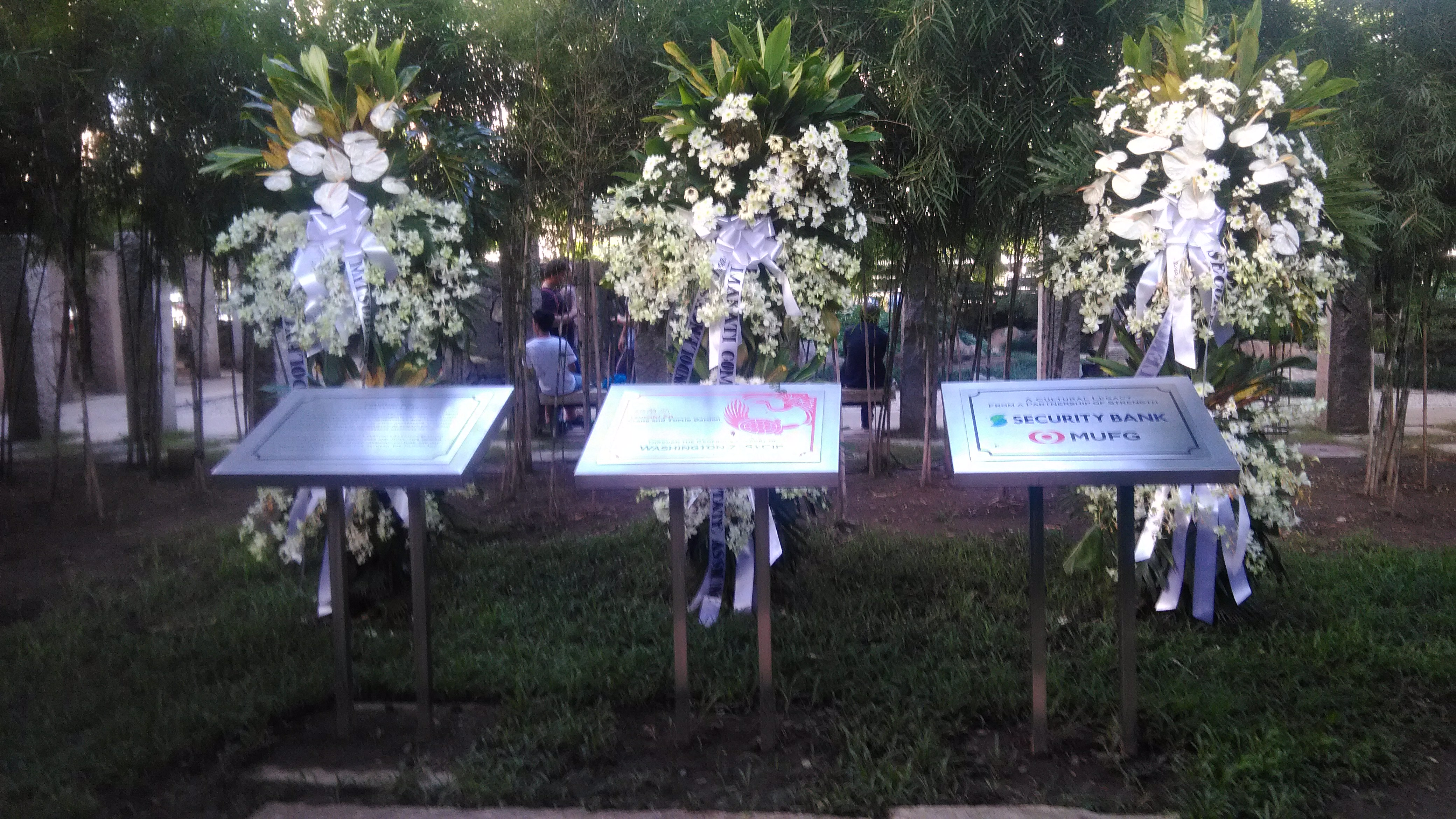 Three plaques at the Tsuruki En / Crane and Turtle Garden at the Washington SyCip Park. The flowers are dedicated to the namesake of the park who died in 2017.